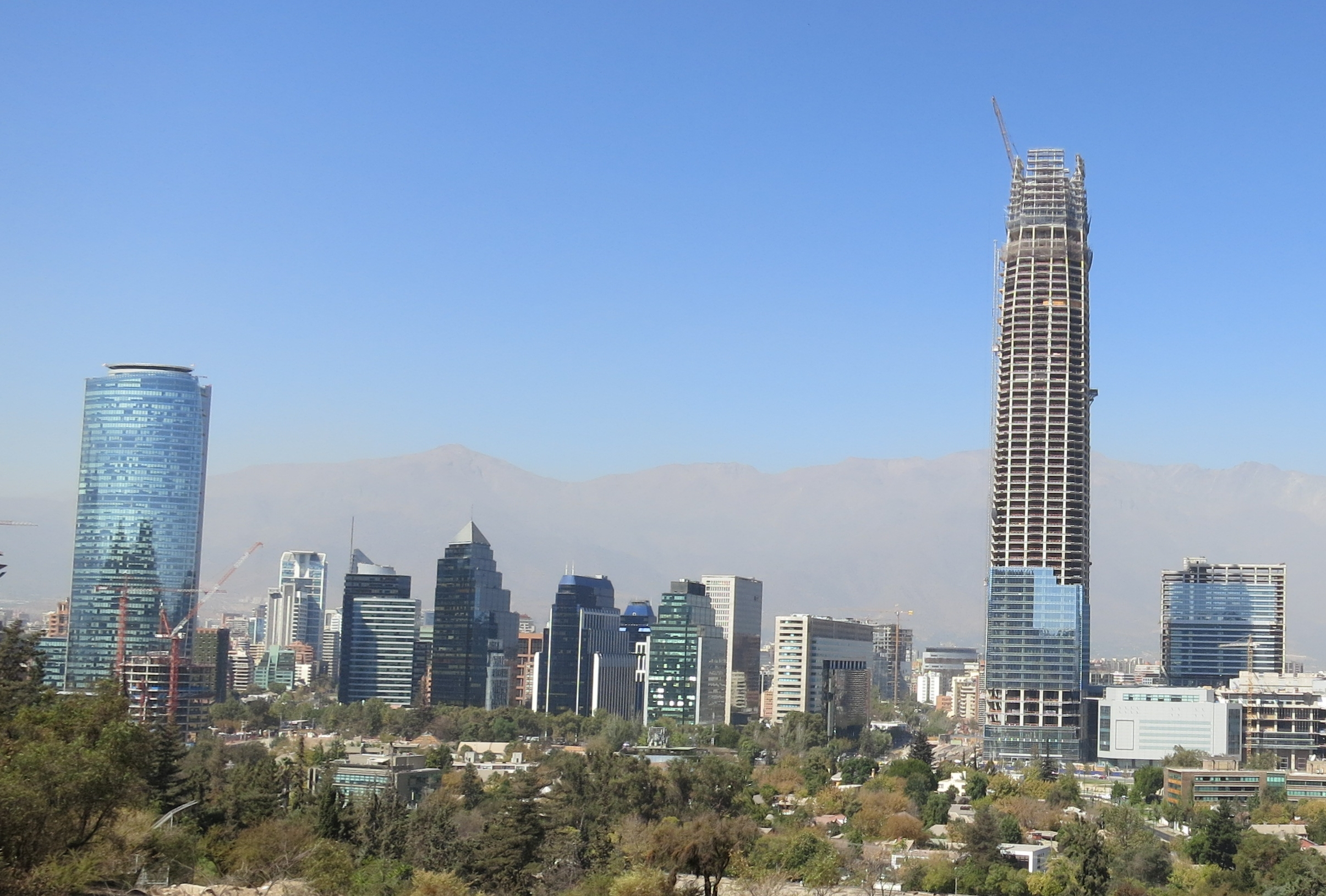 The view of the Costanera Center and the Gran Torre Santiago from the park